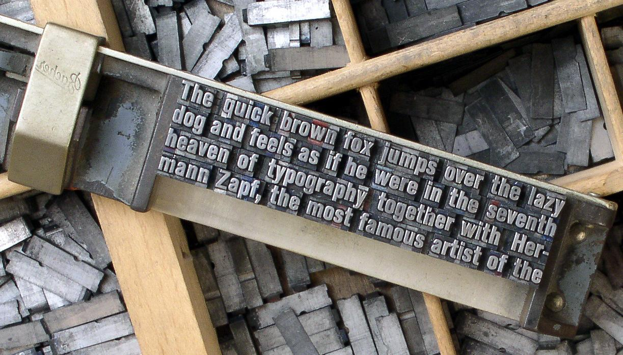 A closeup of the completed text in the image MetalMovableType. The text shown is "The quick brown fox jumps over the lazy dog and feels as if he were in the seventh heaven of typography together with Hermann Zapf, the most famous artist of the". This image is digitally flipped horizontally in order to make the metal moveable letters readable where in a printing press it would be in reverse.